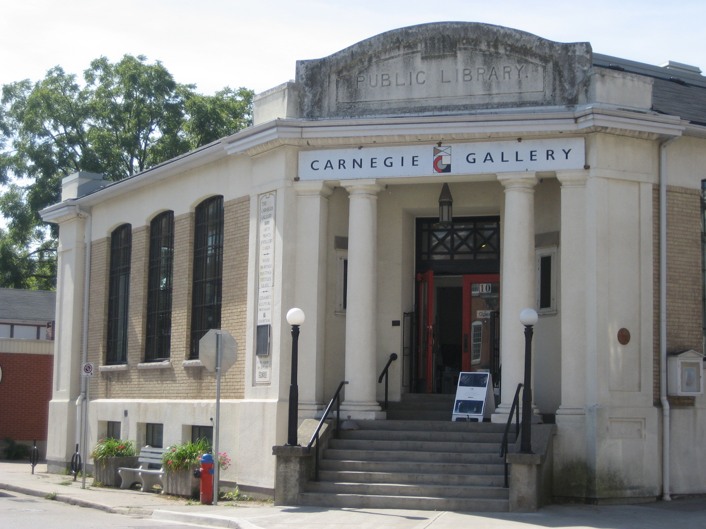 Carnegie Gallery, Dundas, Hamilton, Canada.